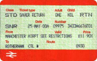 APTIS ticket showing the "SNR" status code. Scanned from my own collection.